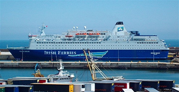 Irish Ferries, OSCAR WILDE at Rosslare shortly after her arrival from France. 07/06/08